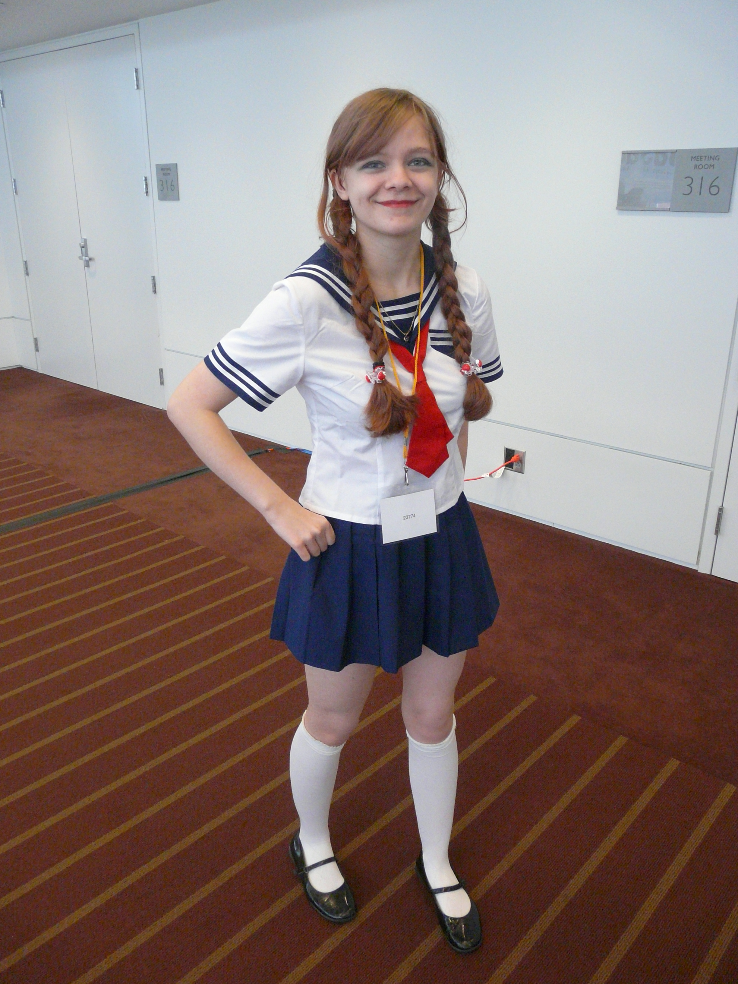 Tekkoshocon at David L. Lawrence Convention Center (2010)